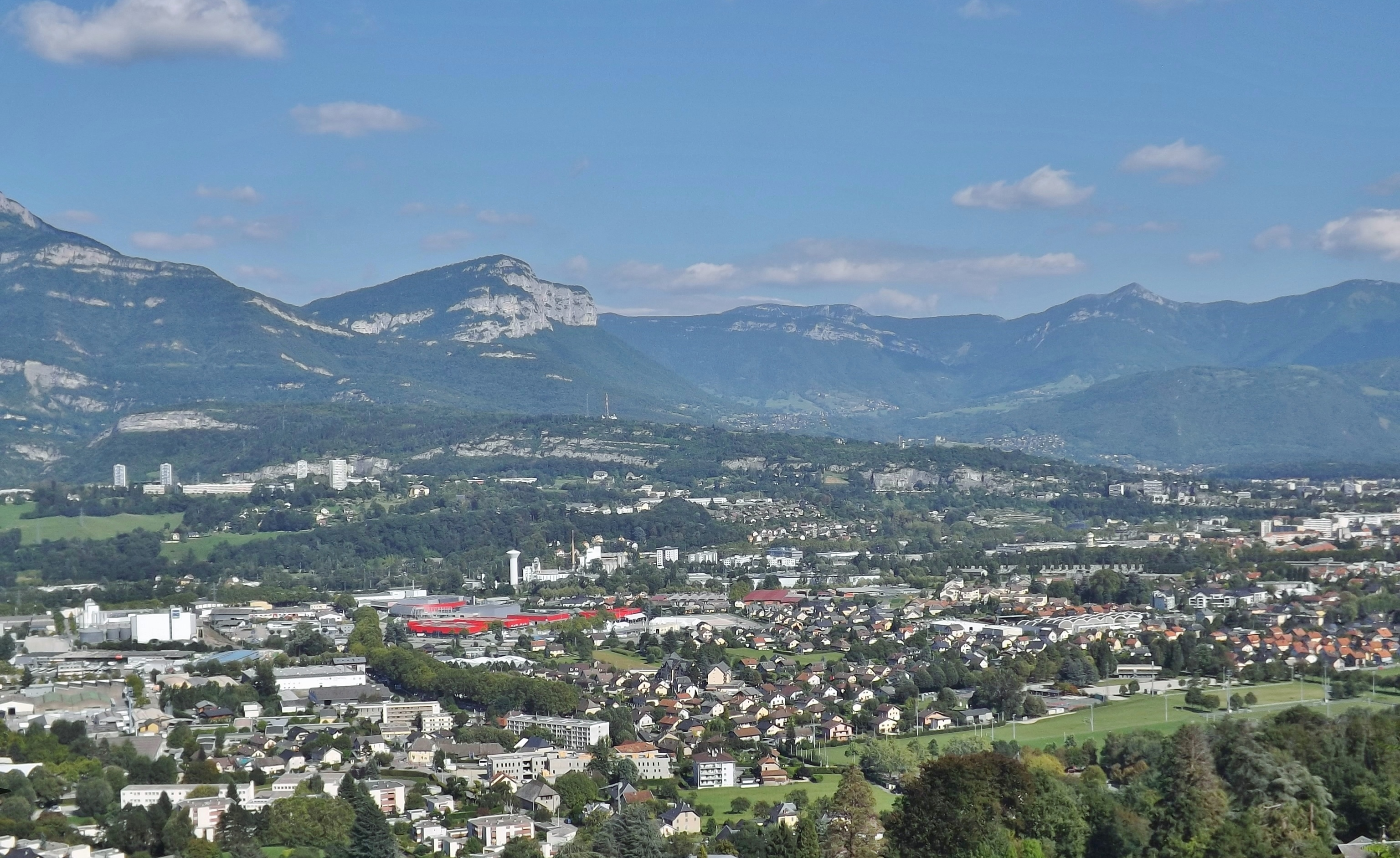 Panoramic sight on the French city of Chambéry in Savoie, from the Chamoux mount. At the background can also be seen the Bauges mountains.